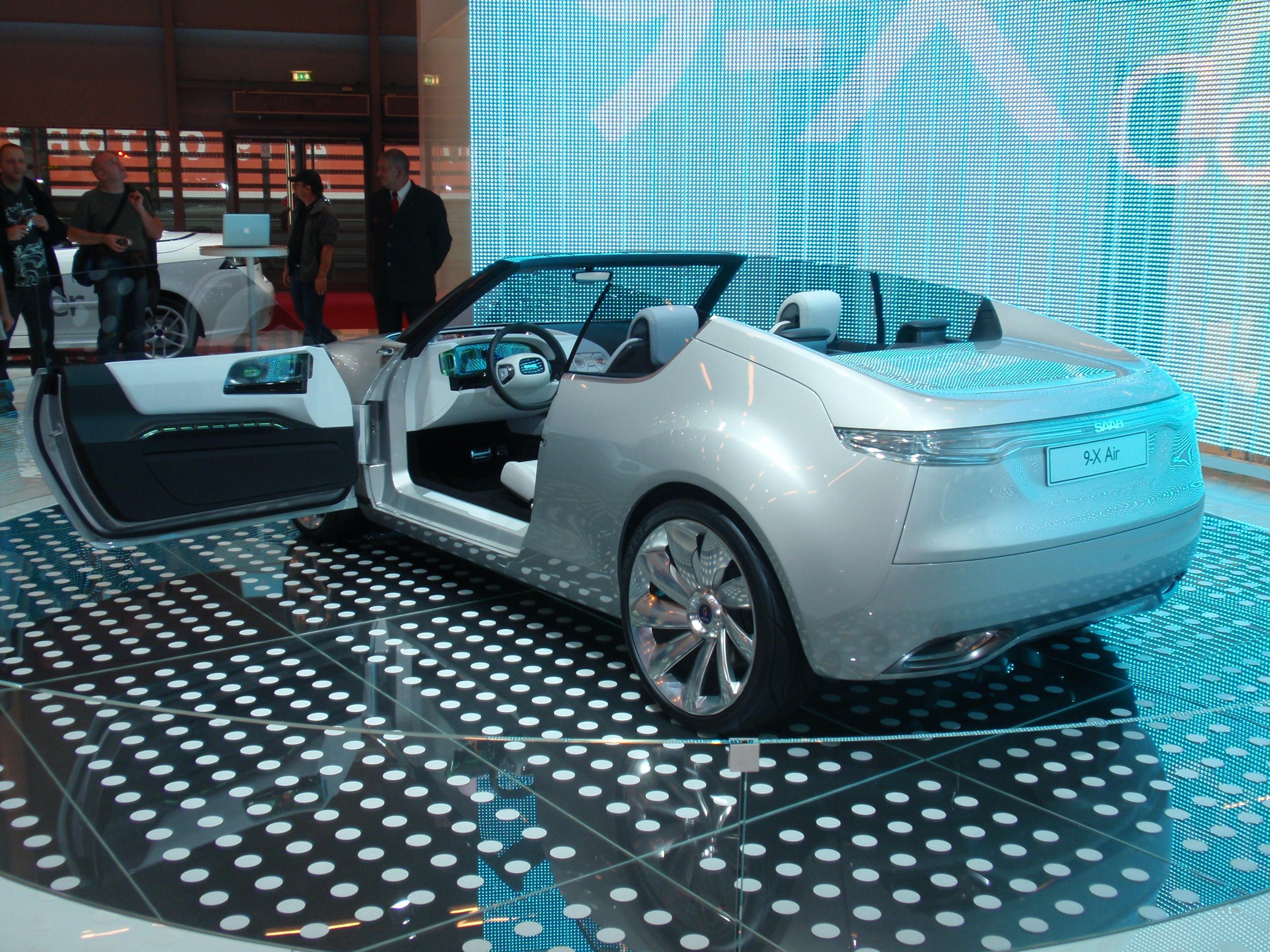 Saab 9-X Air at the 2008 Paris Motor Show